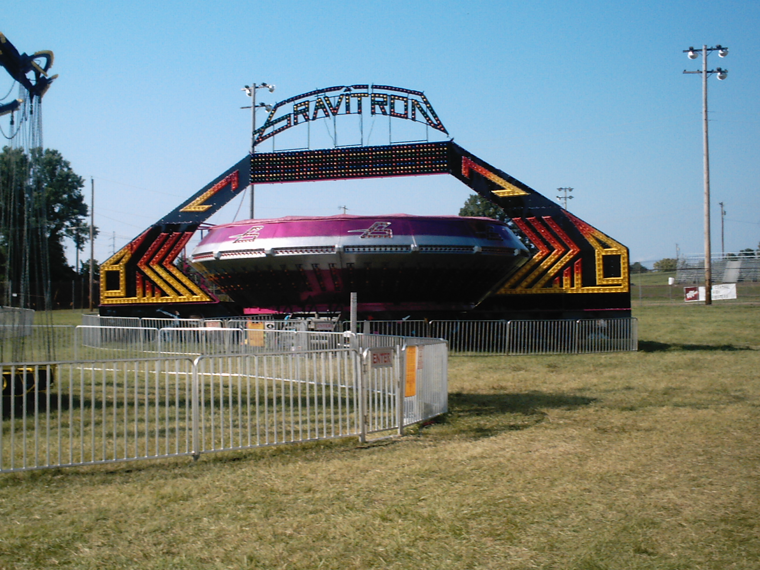 Gravitron at Madisonville Kentucky fair